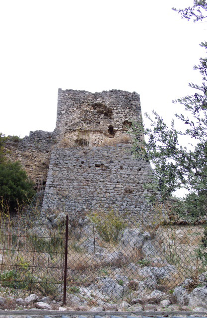 Picture of the ruins of the Norman castle of Preston